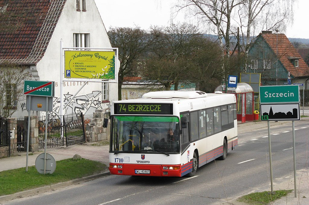 Steyr SN12 bus (#1710, reg. WL 43461) with Volvo B10L chassis owned by SPA Klonowica entering Bezrzecze near Szczecin, Poland. Built 1997.